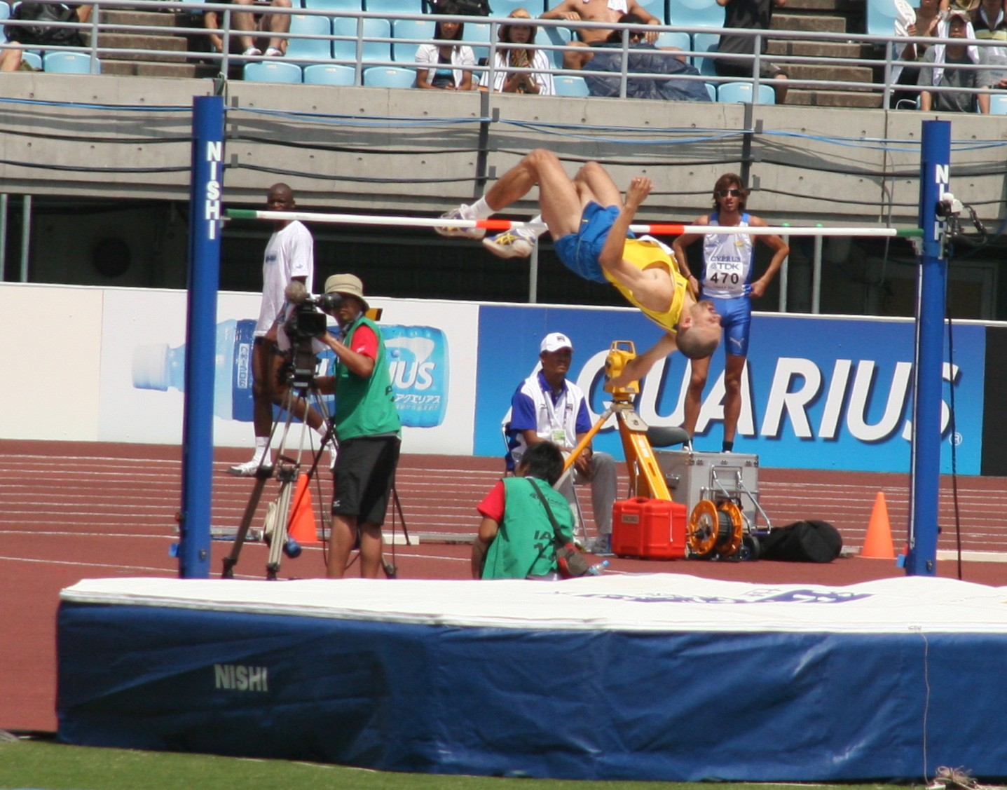 World Athletics Championships 2007 in Osaka - an attempt by Swedish high jumper Stefan Holm during the qualifying round